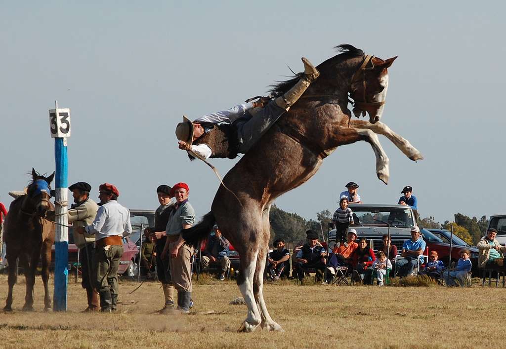 Jineteda gaucha. Argentina.